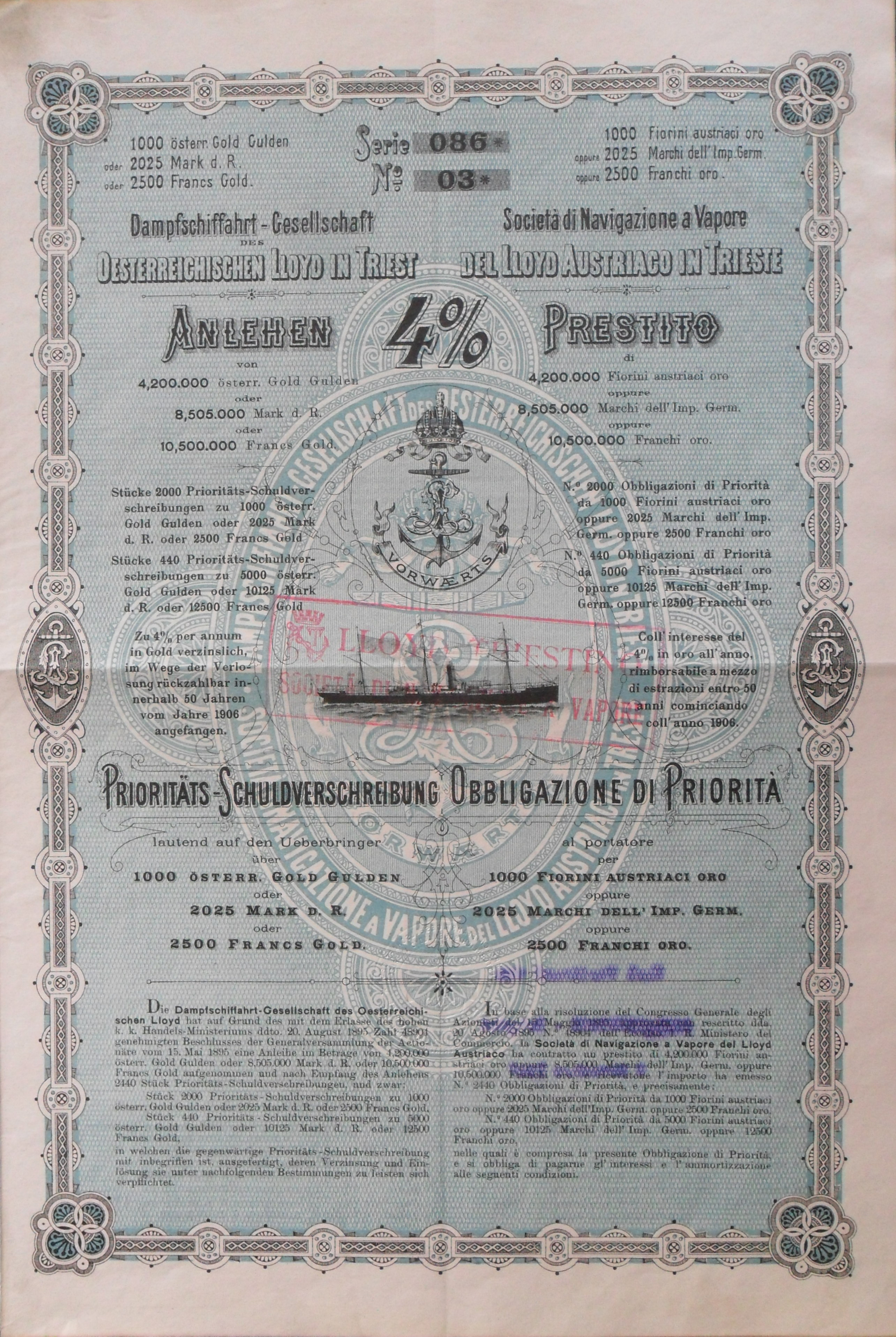 Bond of the Austrian Lloyd from 1895, 1000 Gulden, 4 pages, size: 253 x 377 mm